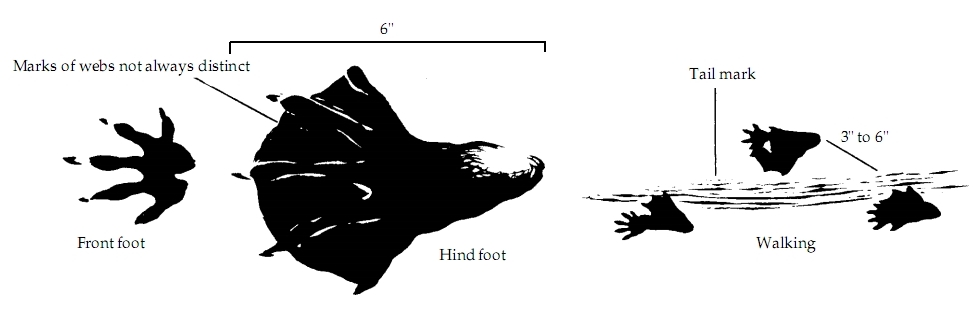 Illustration of beaver tracks